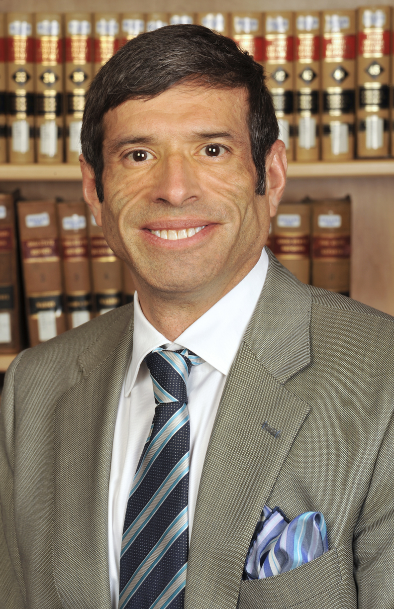 Ohio State University Moritz College of Law Professor Christopher M. FairmanSee also: Moritz College of Law bio page profile.